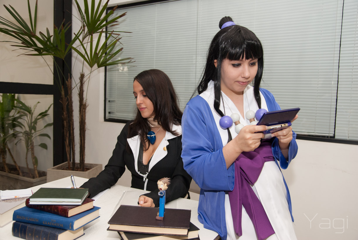 Rin (left) and Fy (right) cosplaying as Mia Fey and Maya Fey, respectively, two Ace Attorney characters.